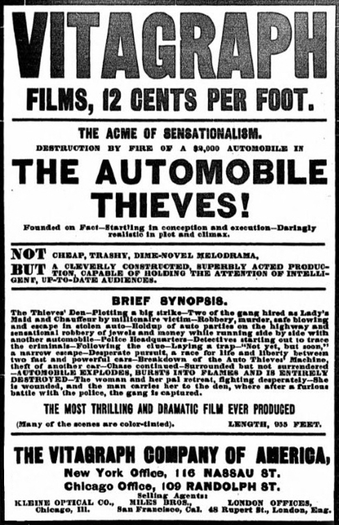 Advertisement for silent film The Automobile Thieves in newspaper, The New York Clipper (1906)